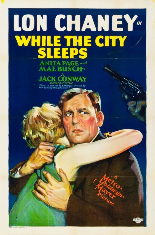 This is a poster for the 1928 American silent crime drama film While the City Sleeps.